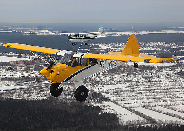 Husky A-1C joint flight with Cessna-172. For better quality pls look